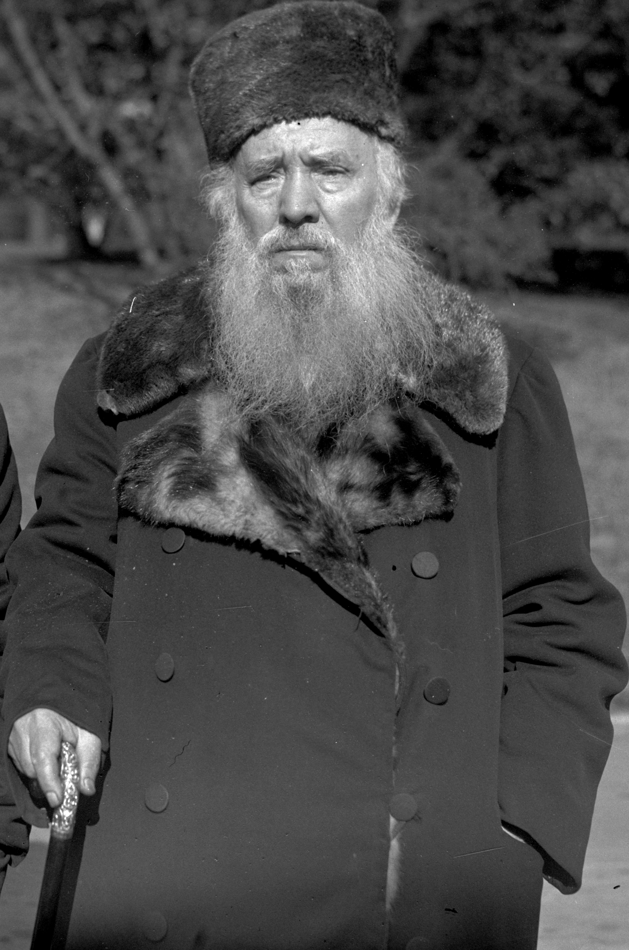 Chief Rabbis Abraham Yudelovitch & G. Wolf Margolis, 11/10/25